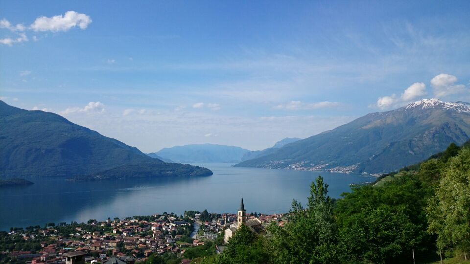 vercana panorama